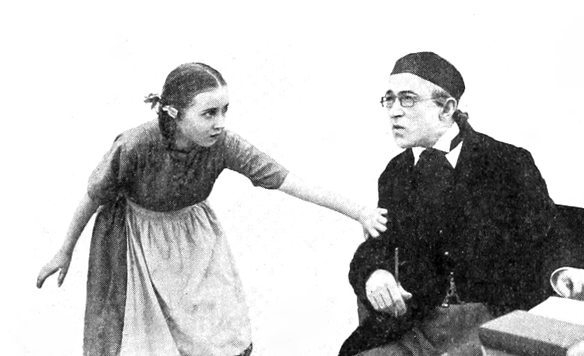 Hulda (Bessie Love) and Clavering (John Emerson) in The Flying Torpedo